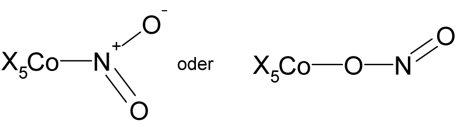 Isomers (X5-Co-NO2 and X5-Co-O-N-O)